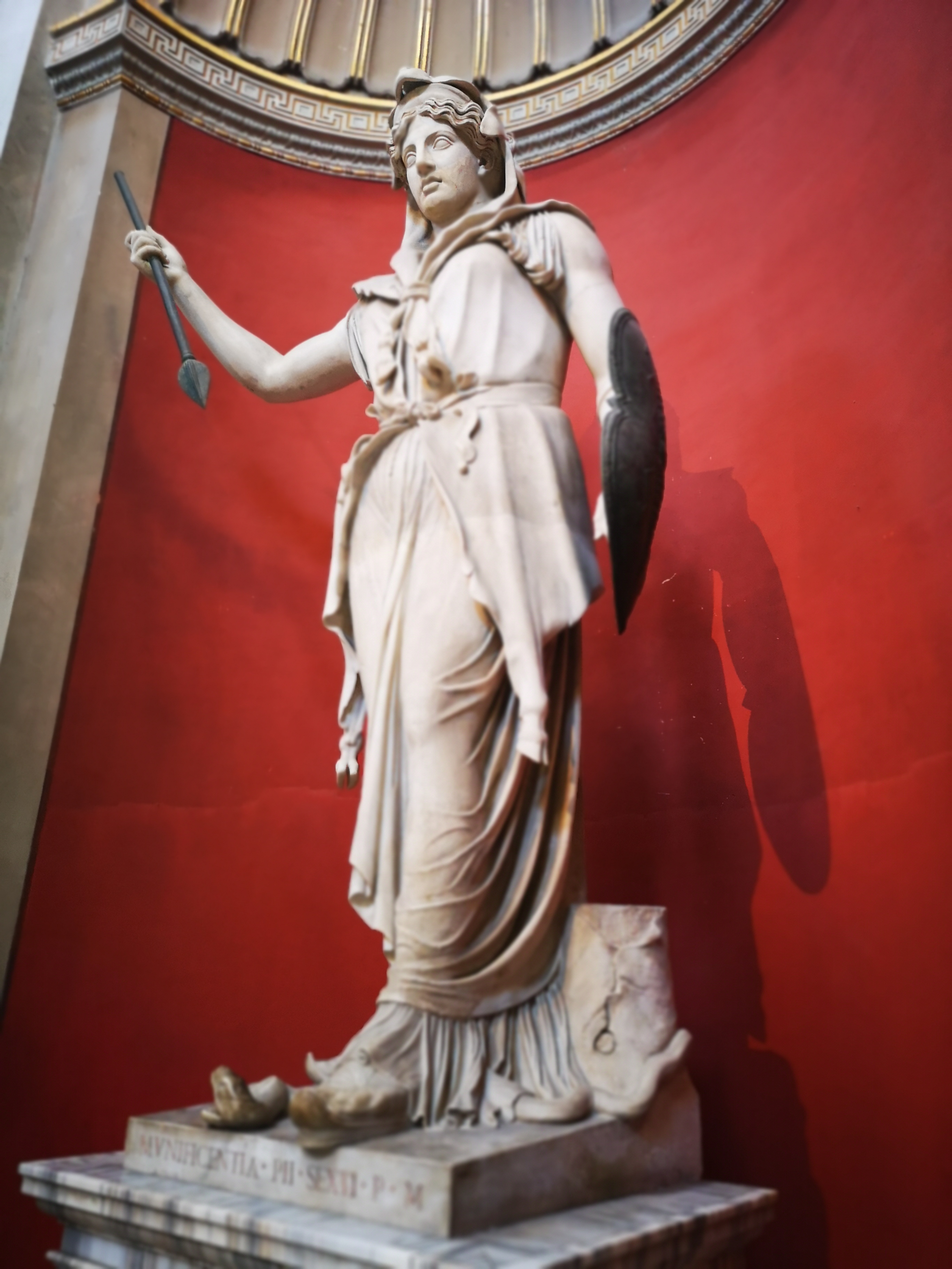 Juno (